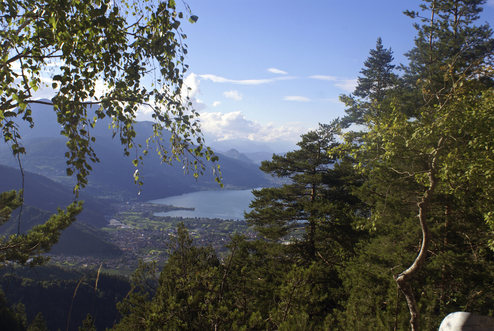 View on Caldonazzo from Kaizer Jagerstrasse Basa Sunda: Blik op Caldonazzo vanaf de Kaizer Jagerstrase